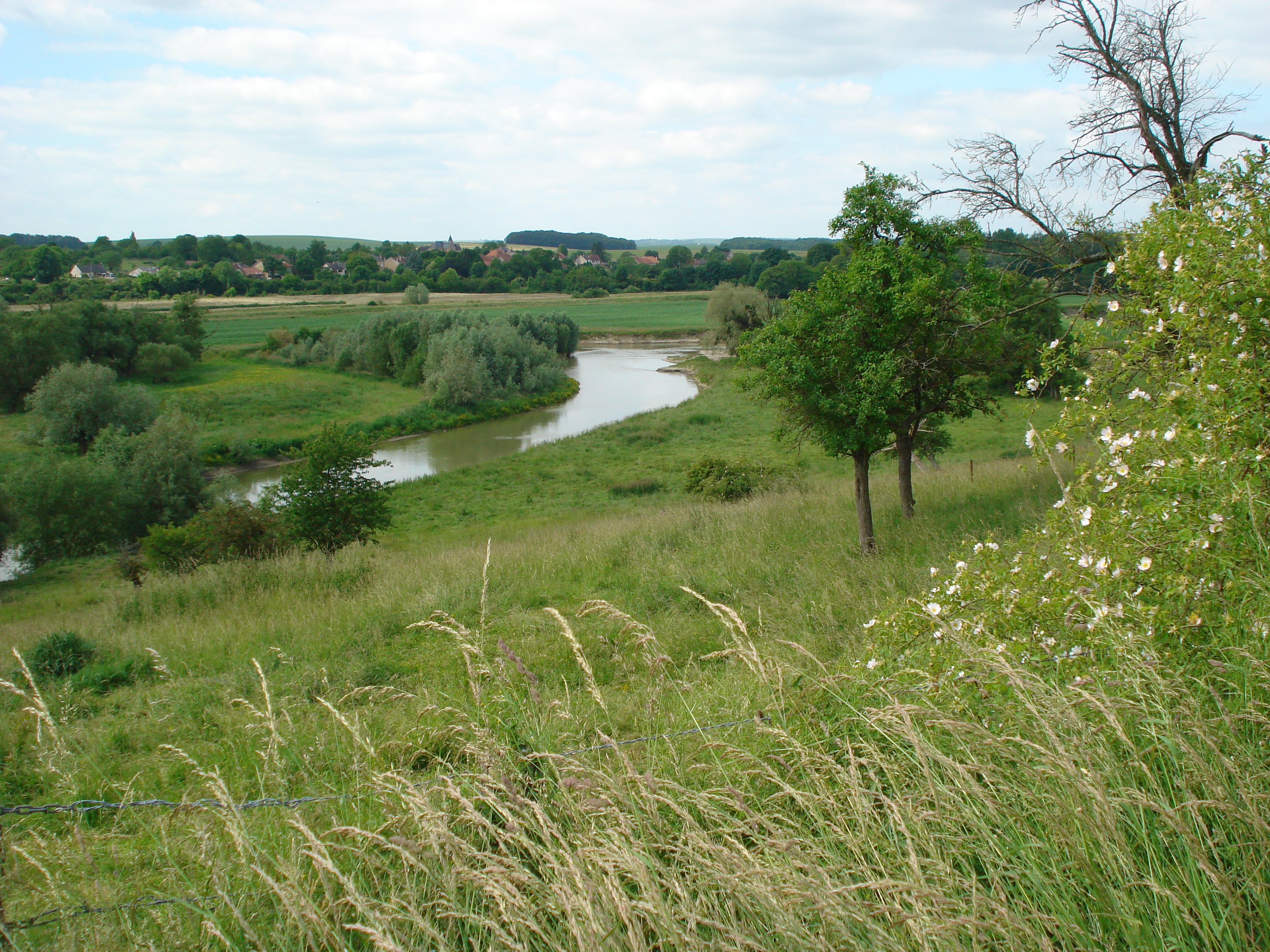 Aisne River, viewed from Mont-de-Jeux; in the background the village of Rilly-sur-Aisne